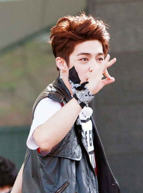 S.Coups performing on April 18 2015.